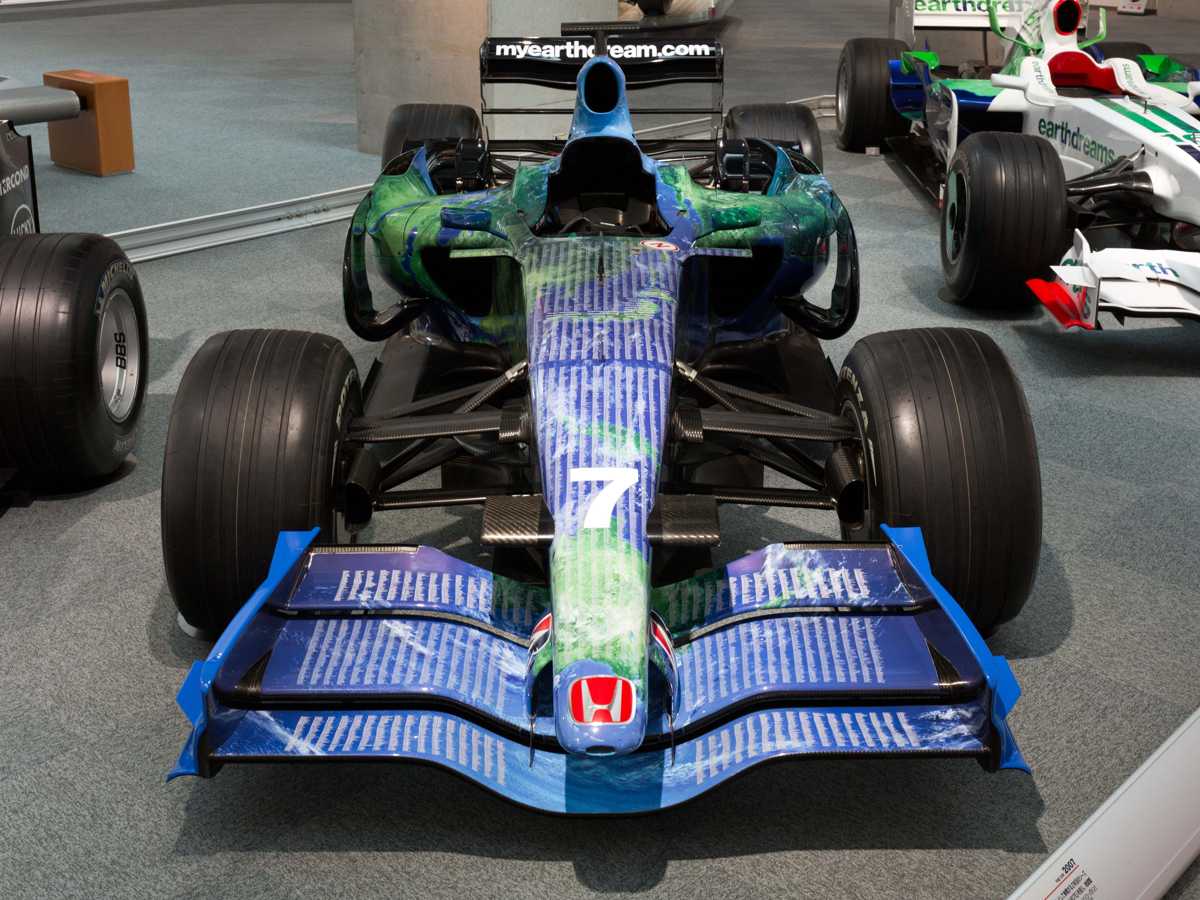 2007 Honda RA107